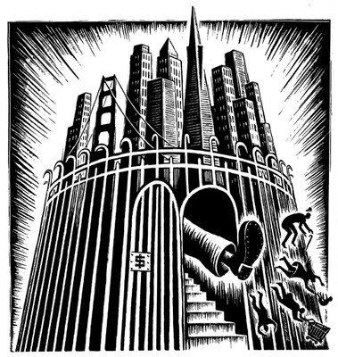 Social Darwinism